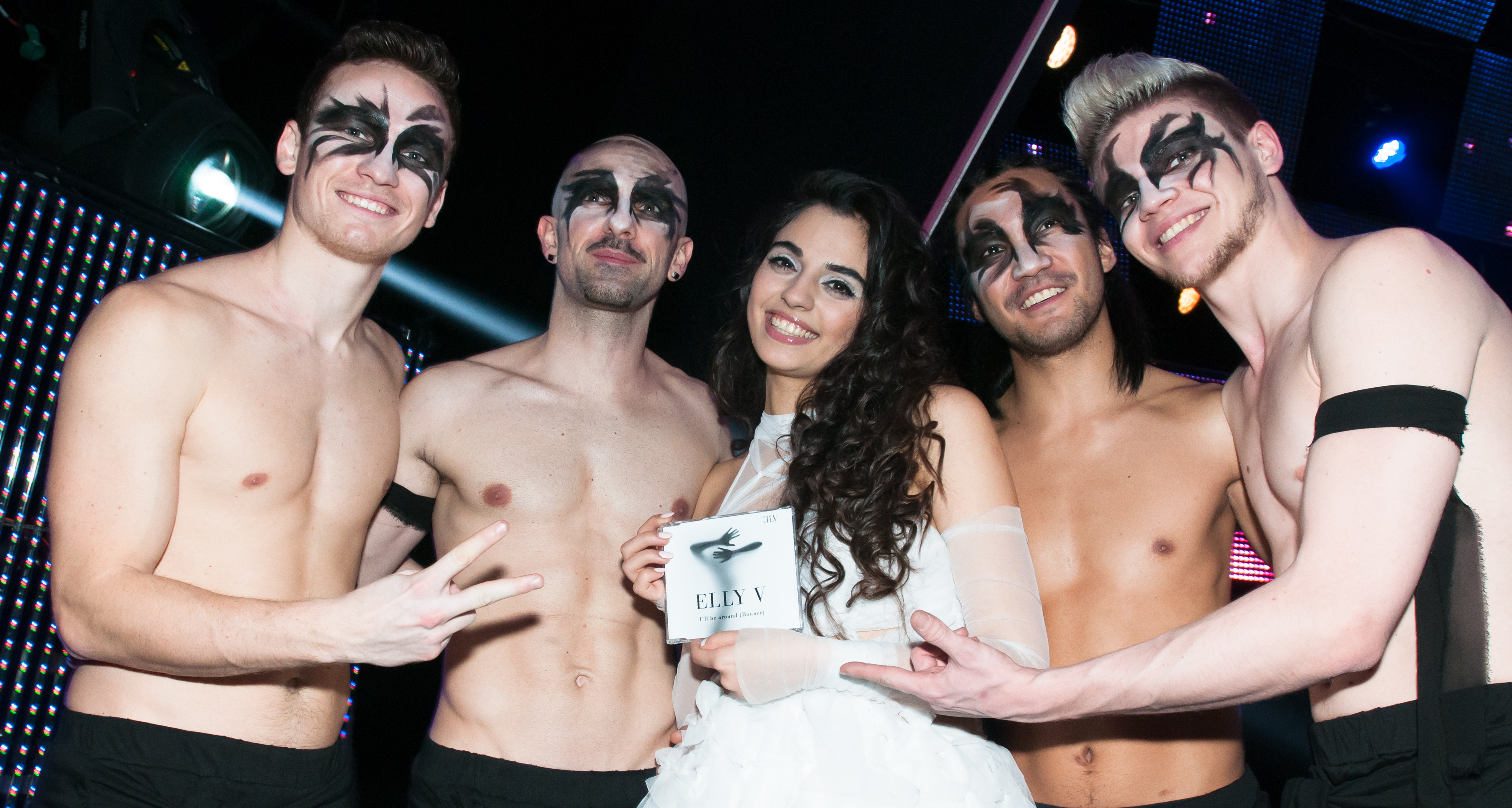 ESC 2016 National Final Austria